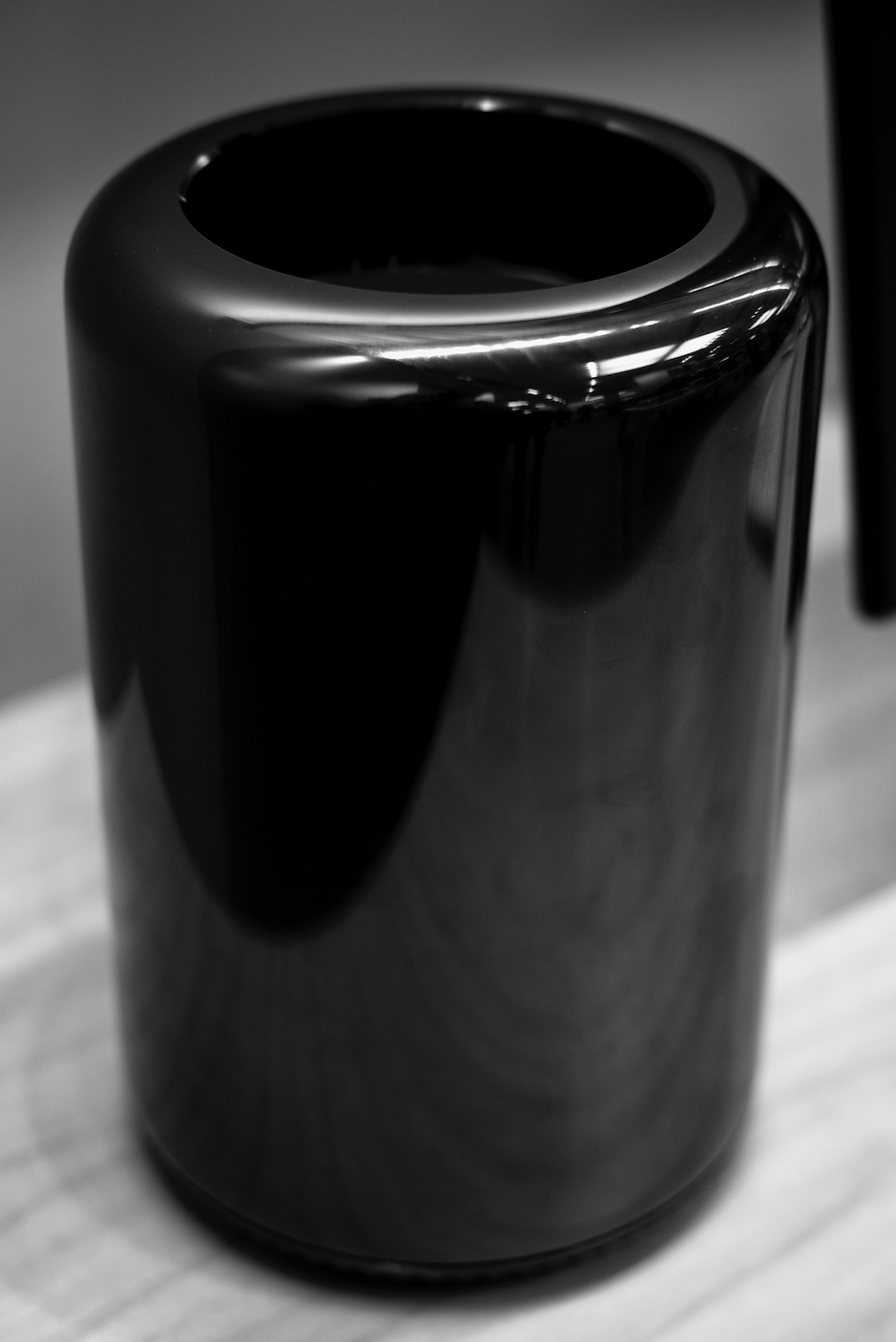 Apple Mac Pro